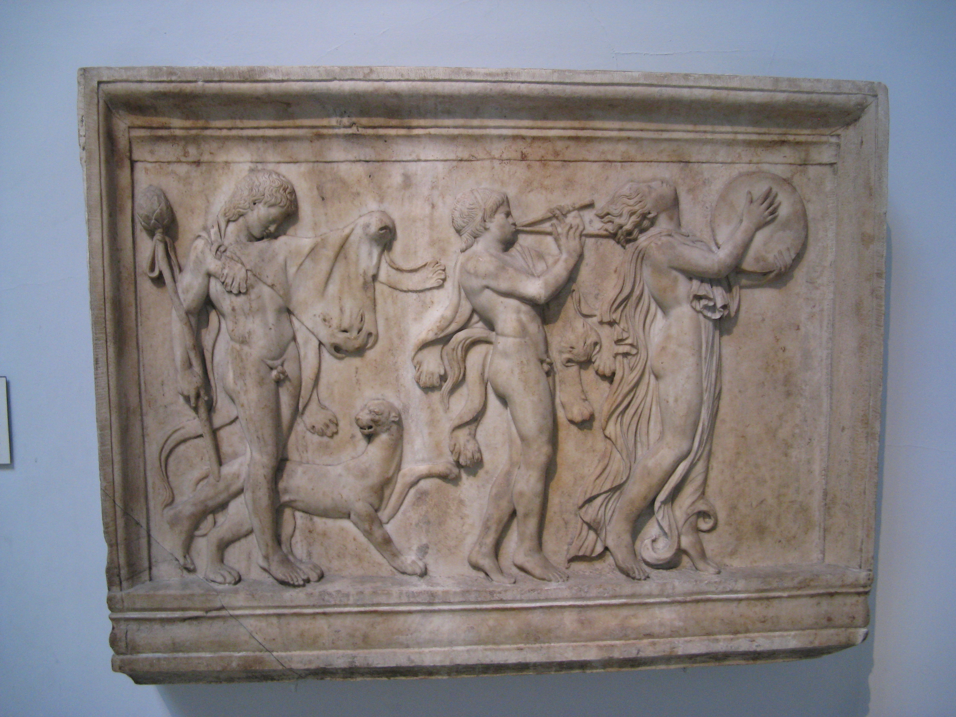 Marble relief of a maenad playing a tambourine and two satyrs (satyr blowing pipes and satyr (or young god) with his panther dance) in a Dionysiac procession at the British Museum. Roman, about AD 100. From the Villa Quintiliana on the Via Appia, south of Rome.